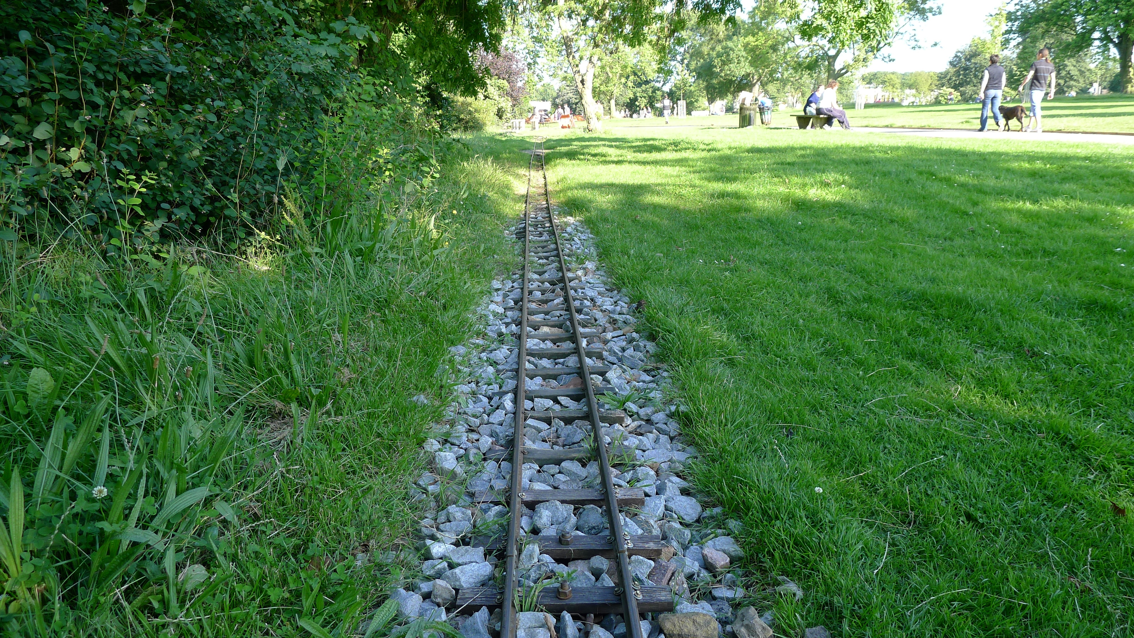 The track of Brockwell Park's miniature railway, which operates in the summer on Sundays.